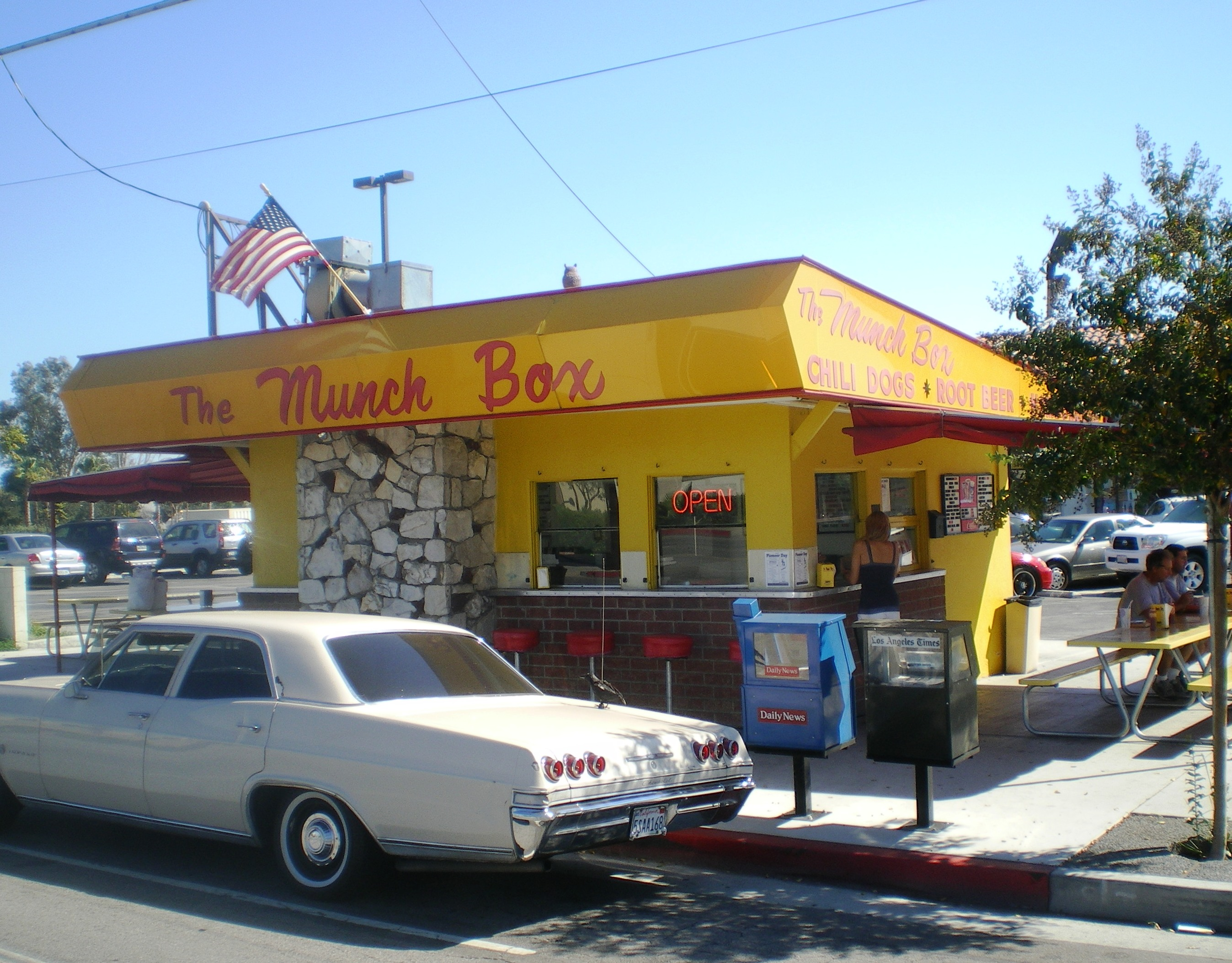 The Munch Box, a historic fast food restaurant in the western San Fernando Valley. A Los Angeles Historic-Cultural Monument located at 21532 W. Devonshire Street in Chatsworth, Los Angeles, California.